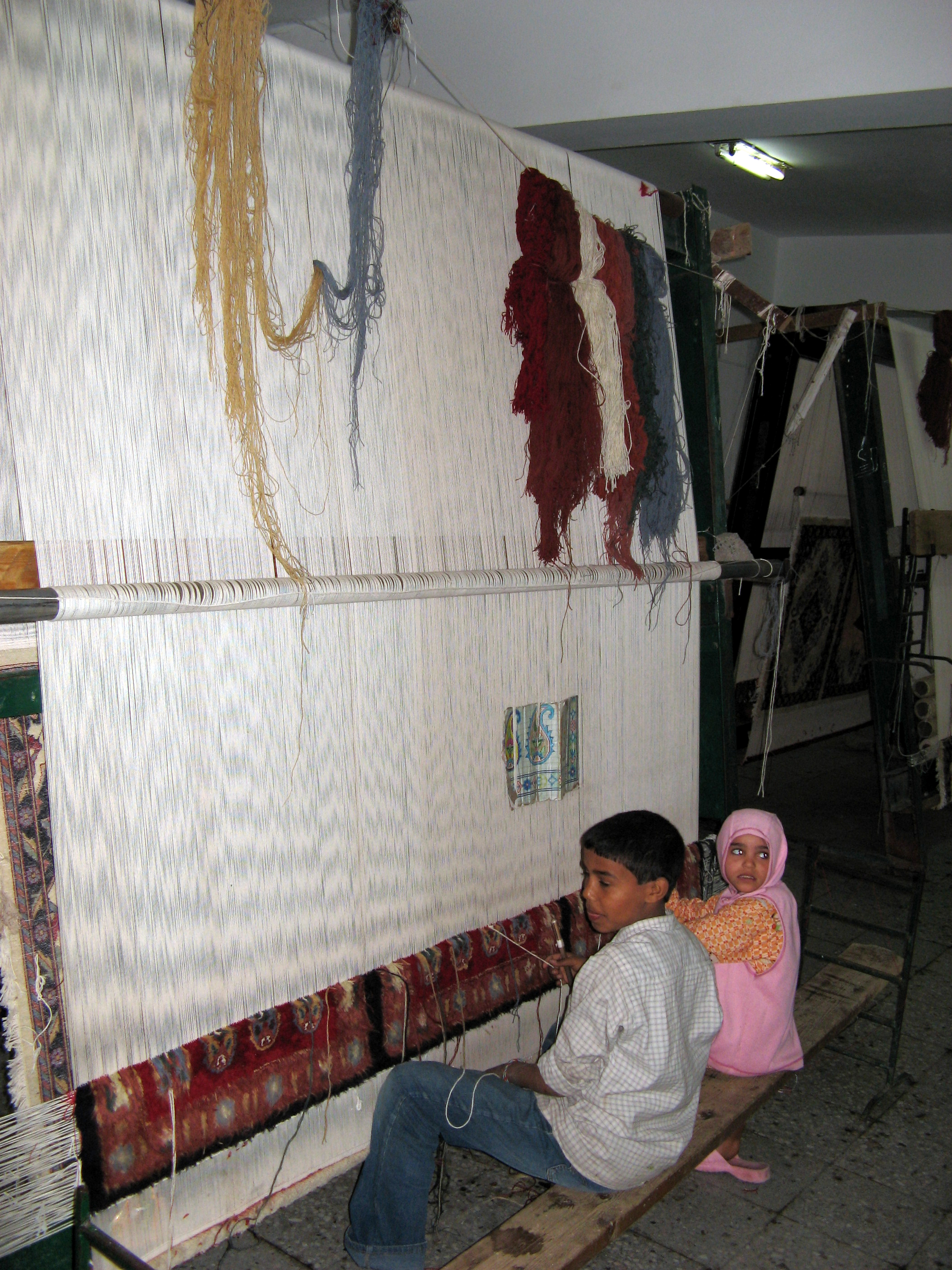 Child labour Weaving a carpet. Some completed carpets are in the background. Location: near Cairo, Egypt